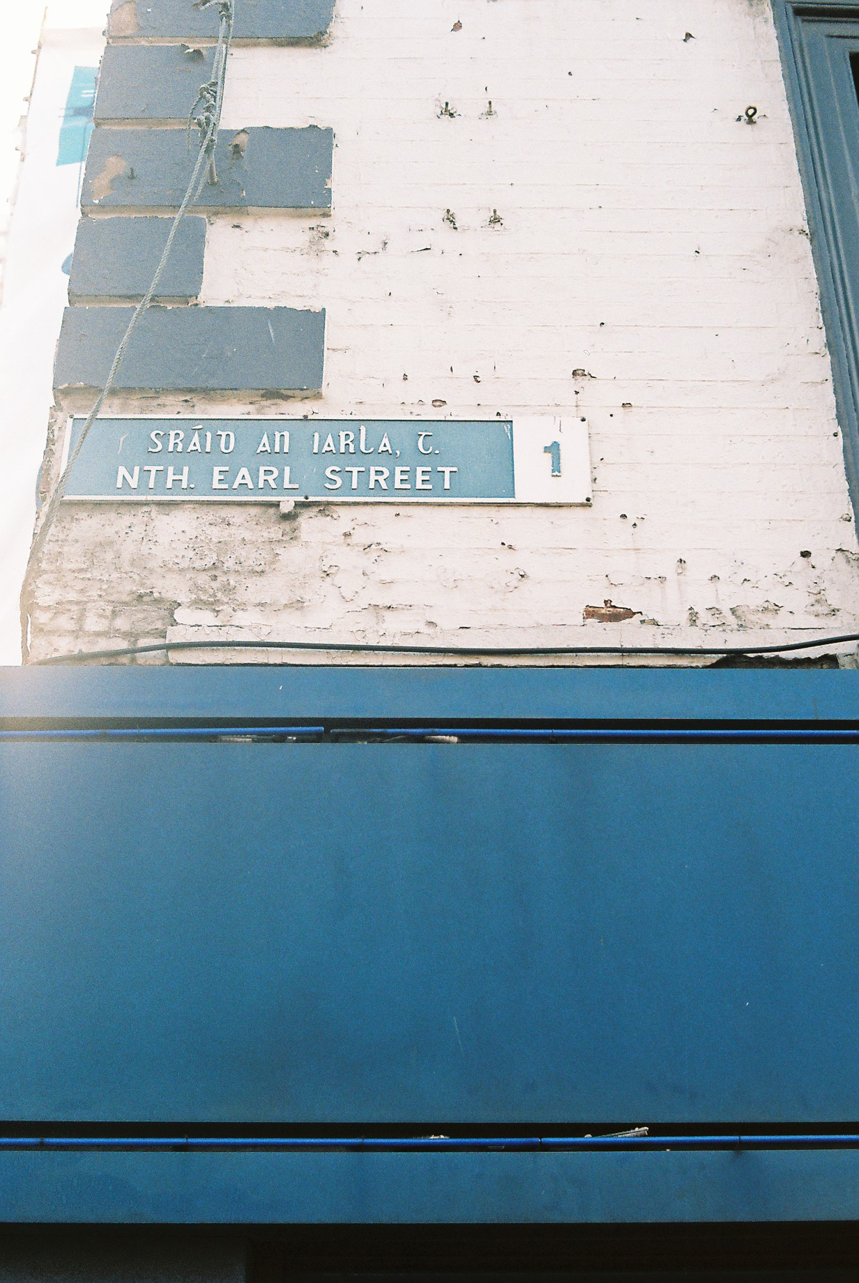 Street sign for North Earl Street, Dublin 1